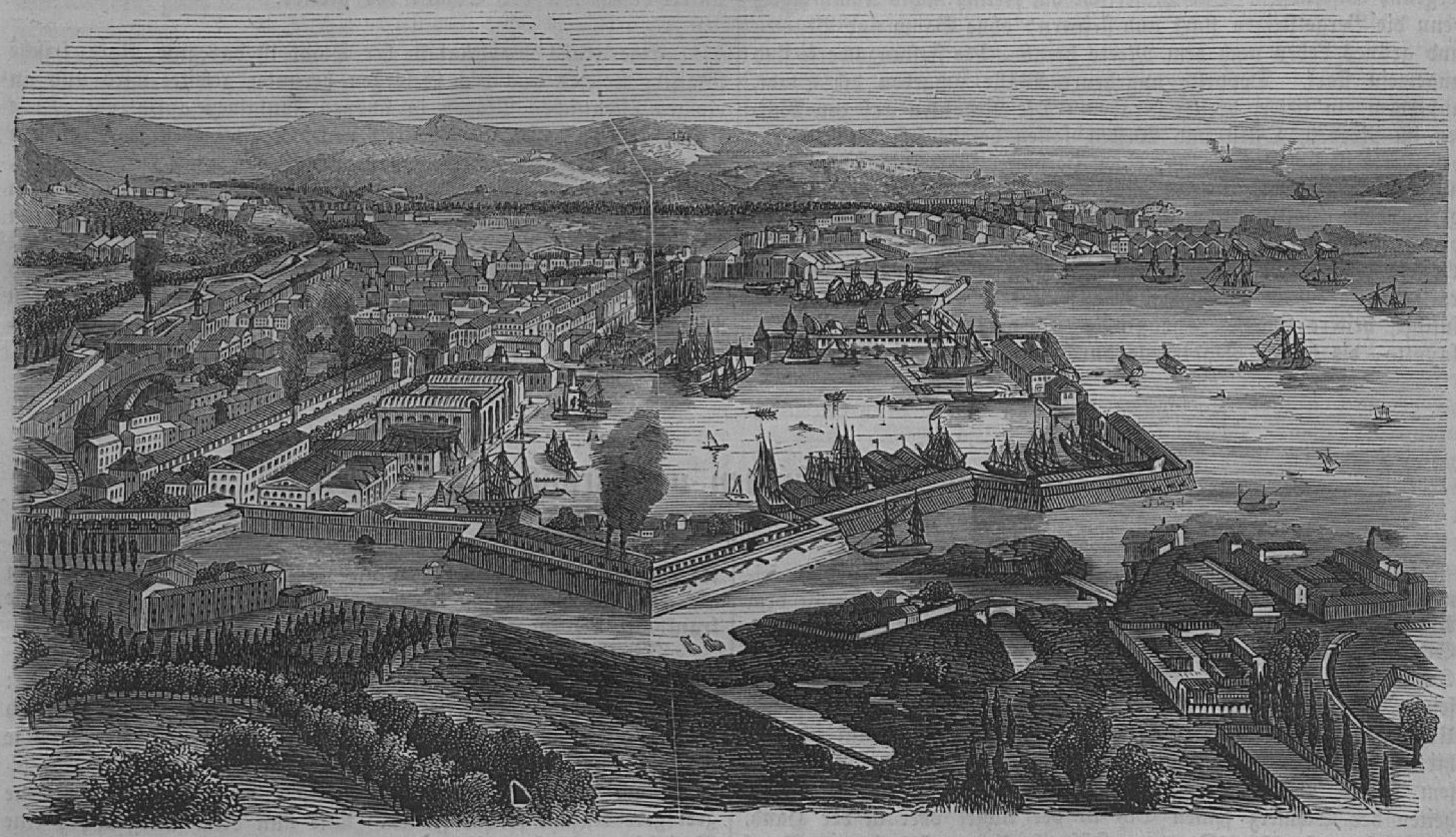 caption: "Toulon."